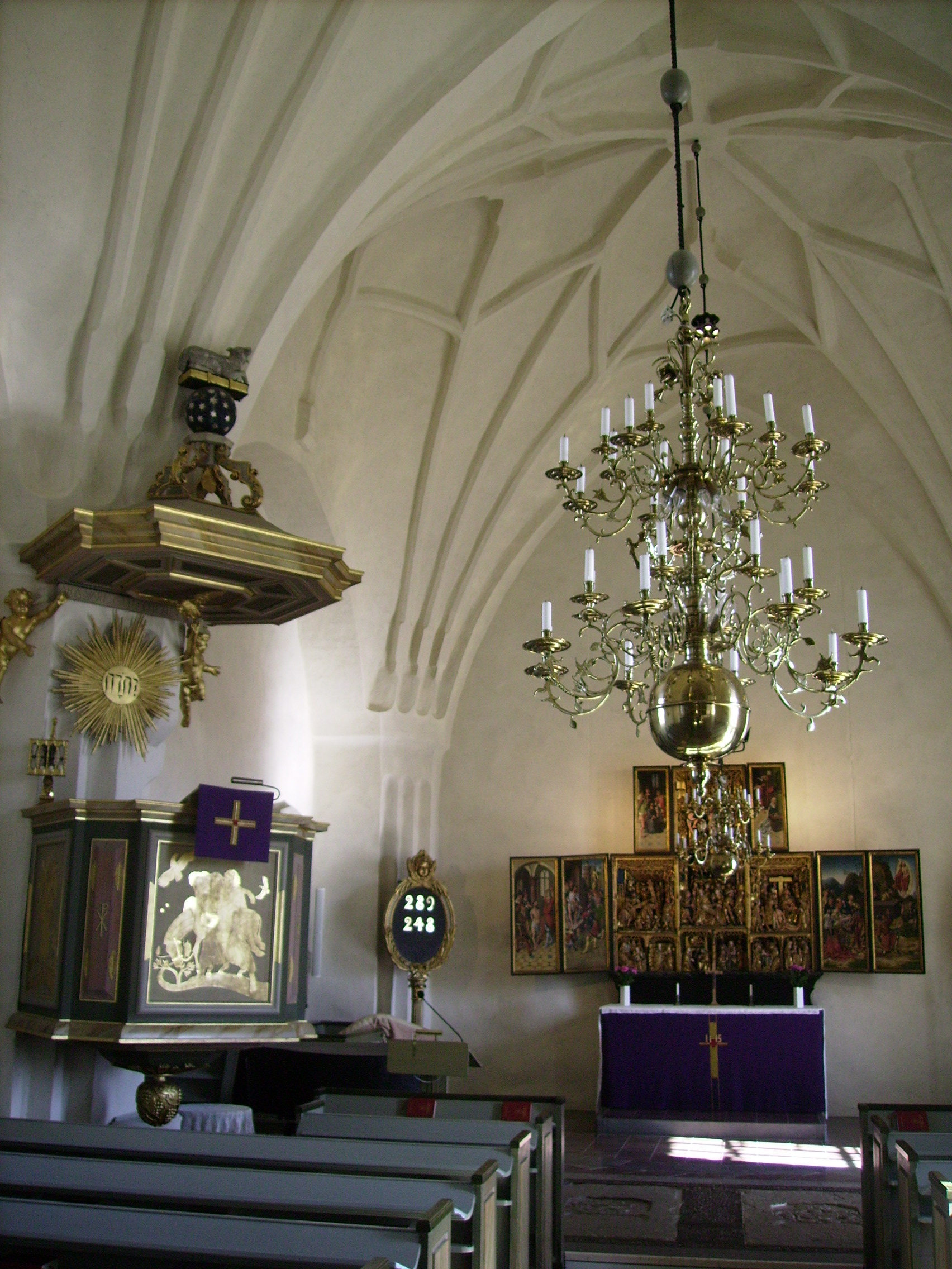 Picture of the interior at Frustuna church in Gnesta.